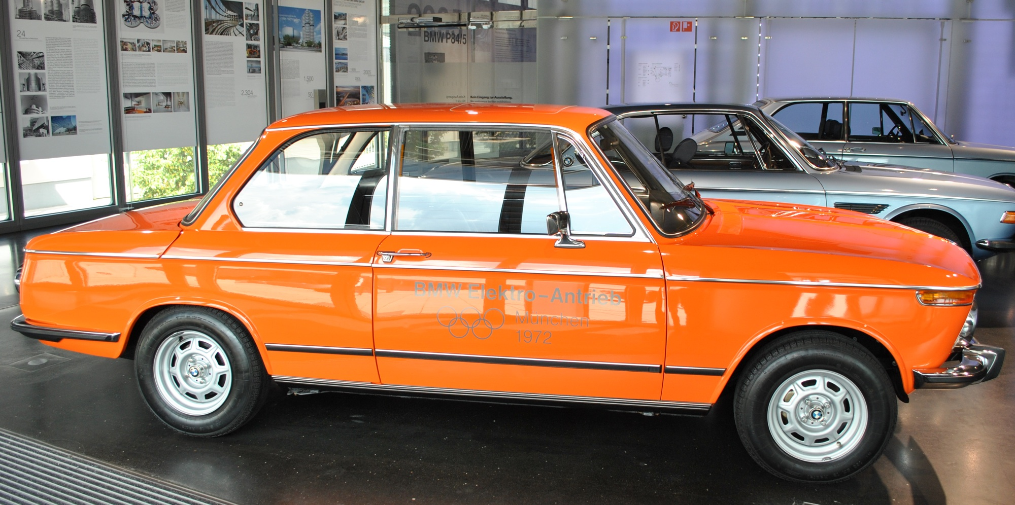 BMW 1602 Electro at BMW Museum Munich